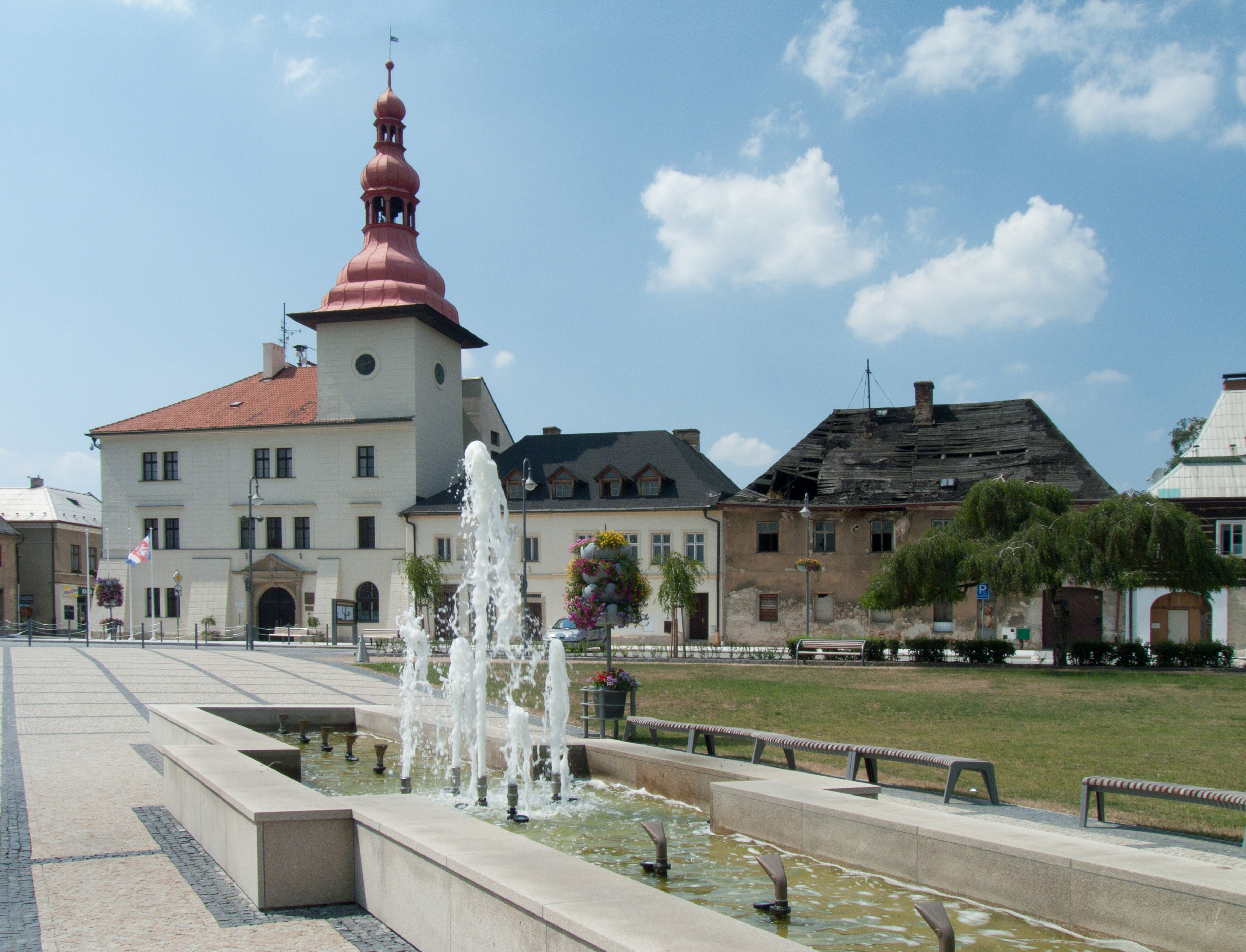 Fountain and the town hall in the main square in the town of Bělá pod Bezdězem, Česká Lípa District, Czech Republic